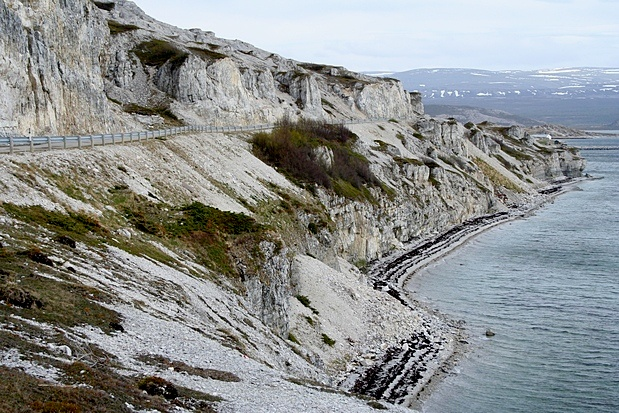 Dolomite at Børselvnes in Porsangerfjord, Norway. The road is fylkesvei 183. Original description: Porsanger Fjord. North of Norway.